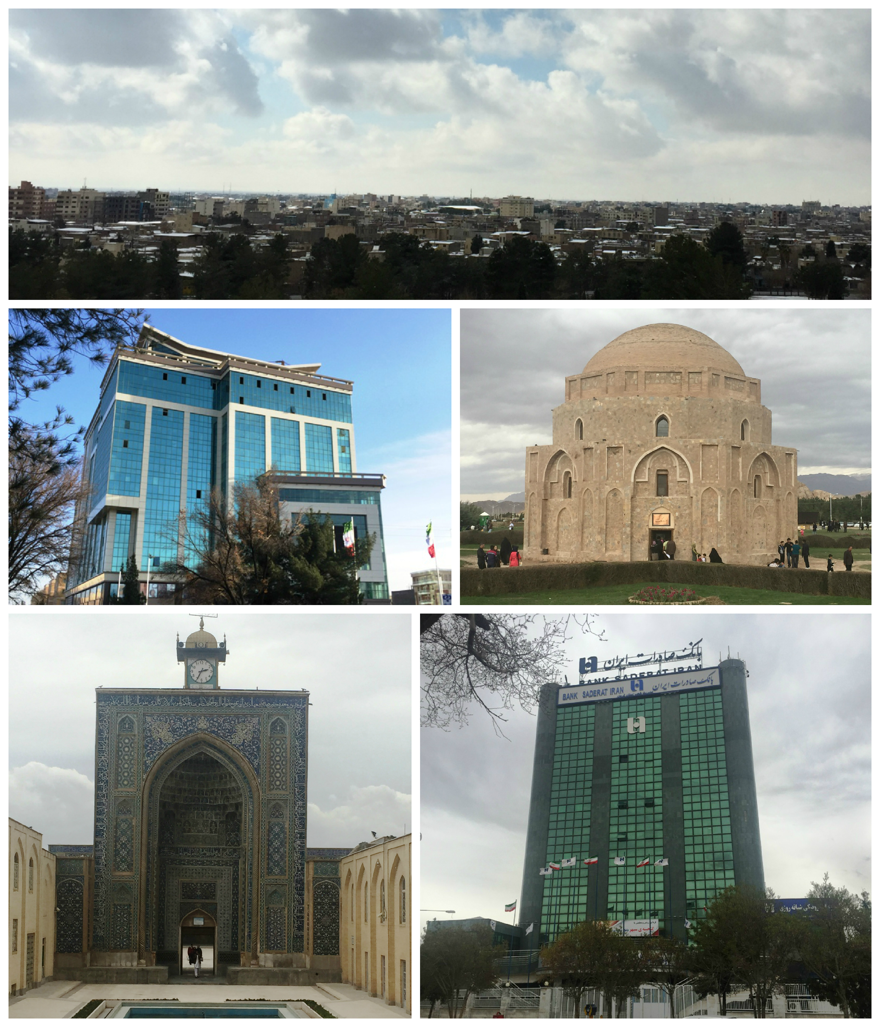 Clockwise from the top: Kerman's skyline ;Jabaliyeh dome – ancient museum of stone ; Saderat bank tower ; Jameh Mosque; and Burj Av'al(Tower One).